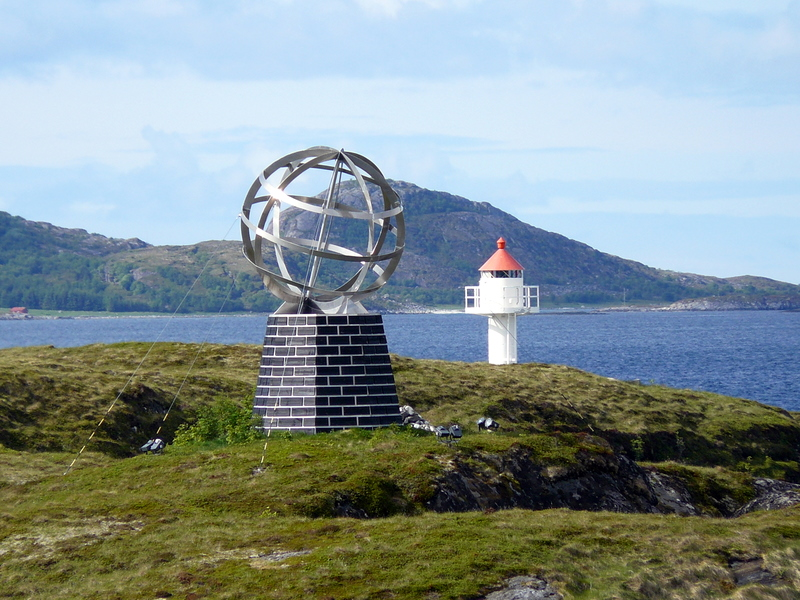 The polar circle sign on Vikingen Island in Norway